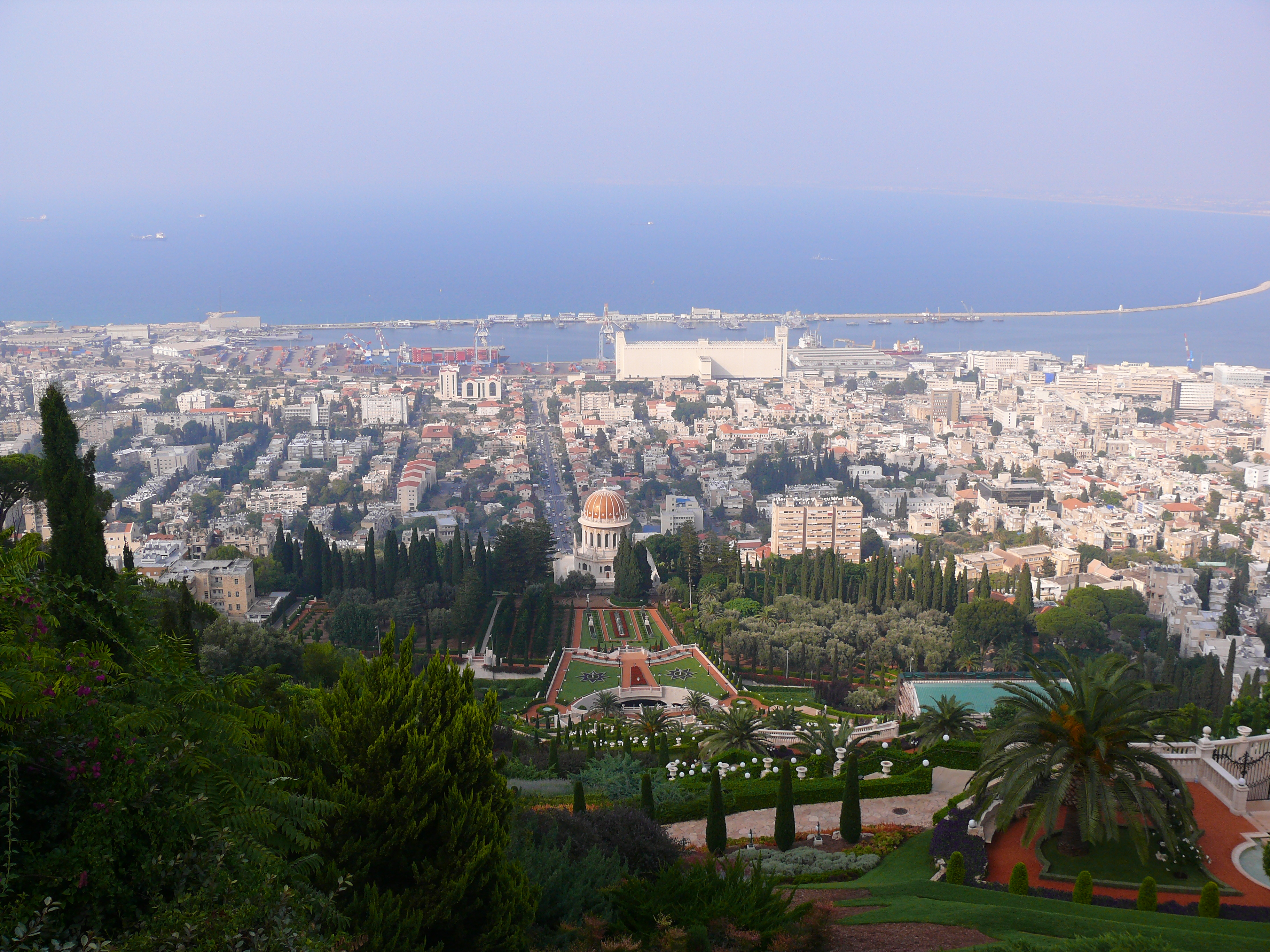 Bahai World Center, Haifa, Israel